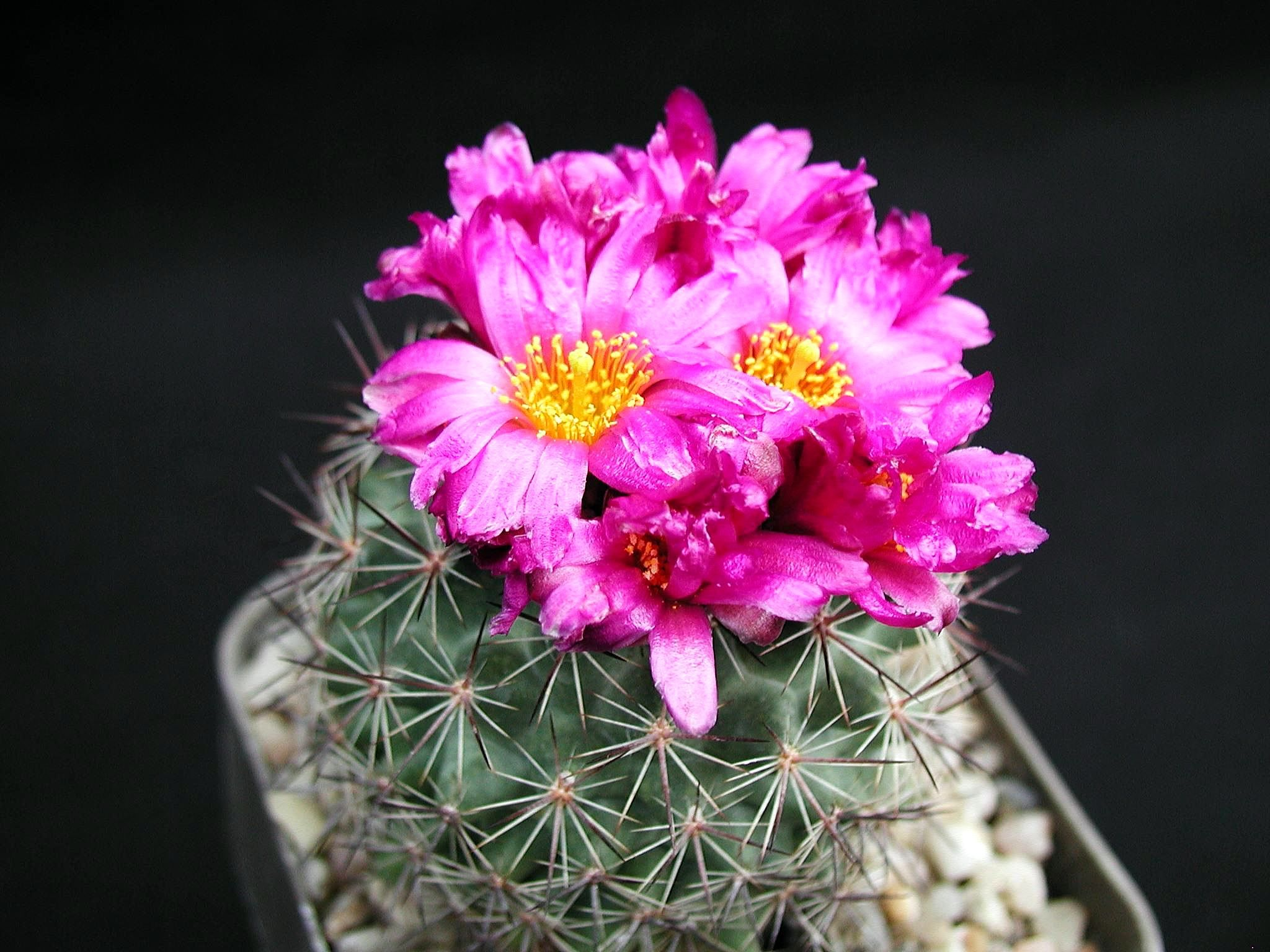 Image title: Cacti red flowers Image from Public domain images website